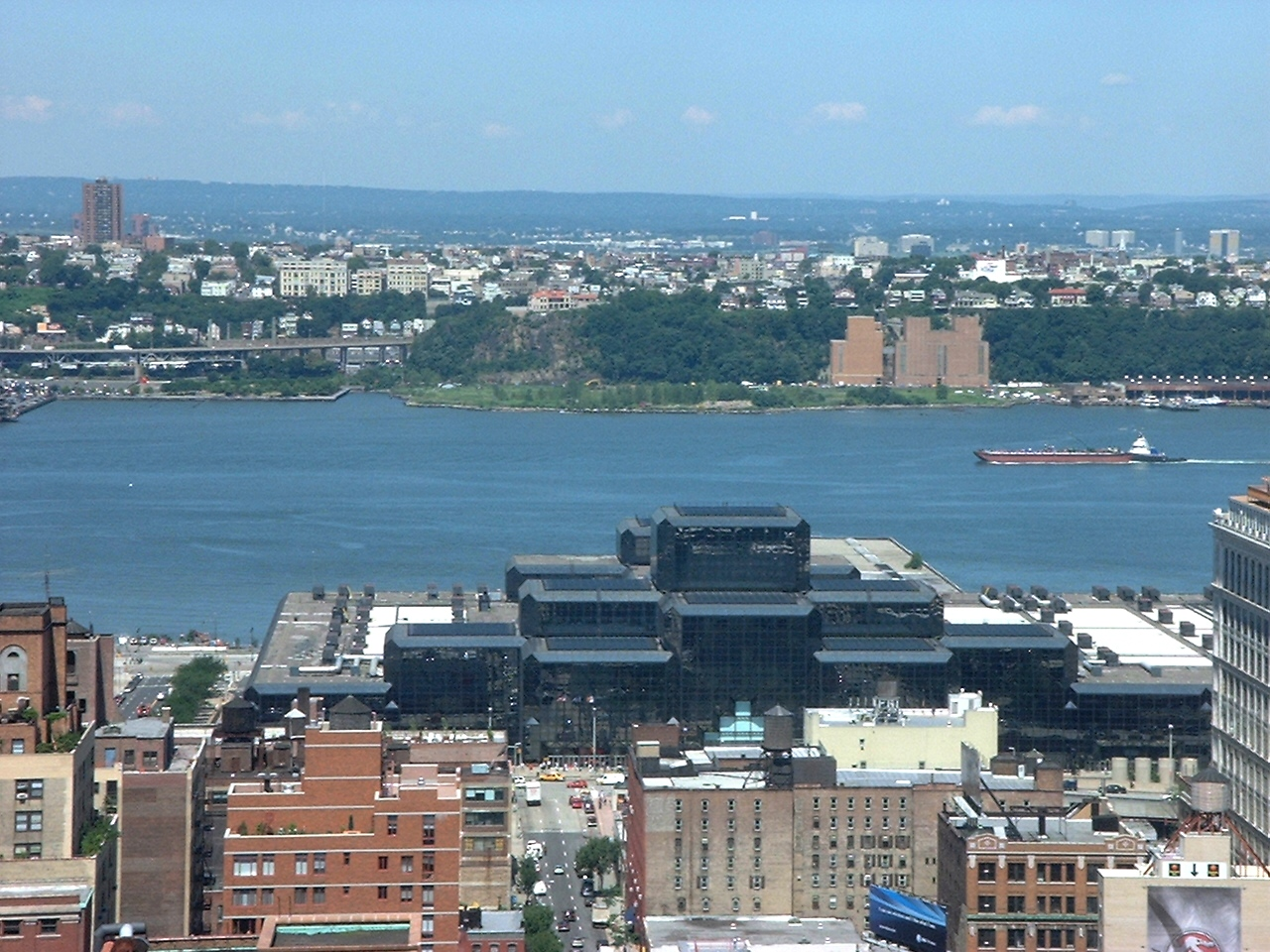 Hudson River with Jacob Javits Convention Center in foreground. I took this picture on July 20, 2001 at 11:30 am from my room at the Hotel New Yorker.